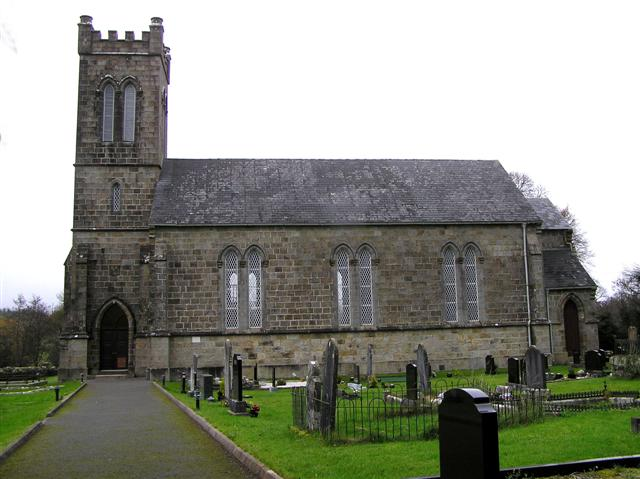 St Augustine's Church of Ireland, Swanlinbar It is in the Parish of Kilmore